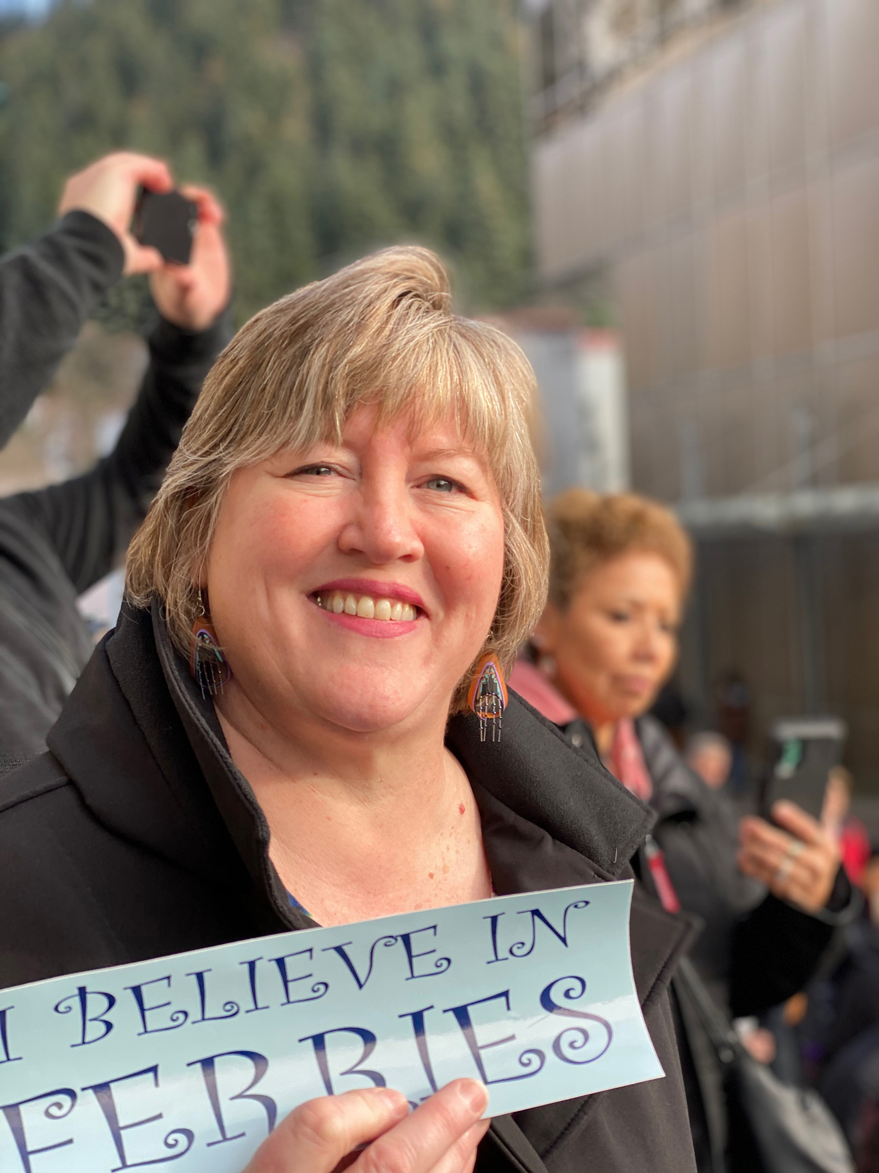 Representative Sara T. Hannan on the steps of the Alaska State Capitol supporting our Alaska Marine Highway System, Juneau, Alaska.